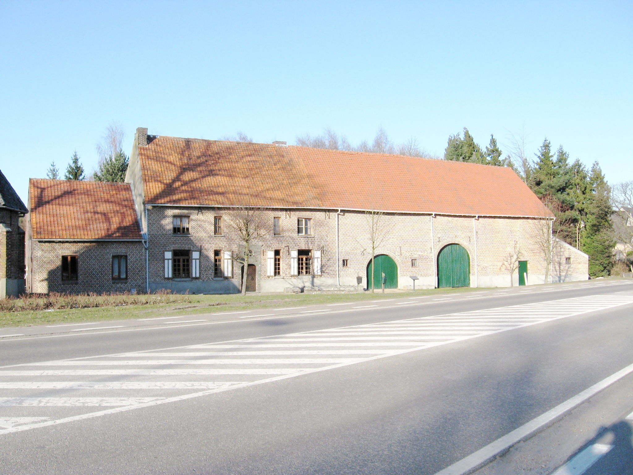 Farmhous "Claes" in Houthalen (Lillo), Houthalen-Helchteren, Limburg, Belgium